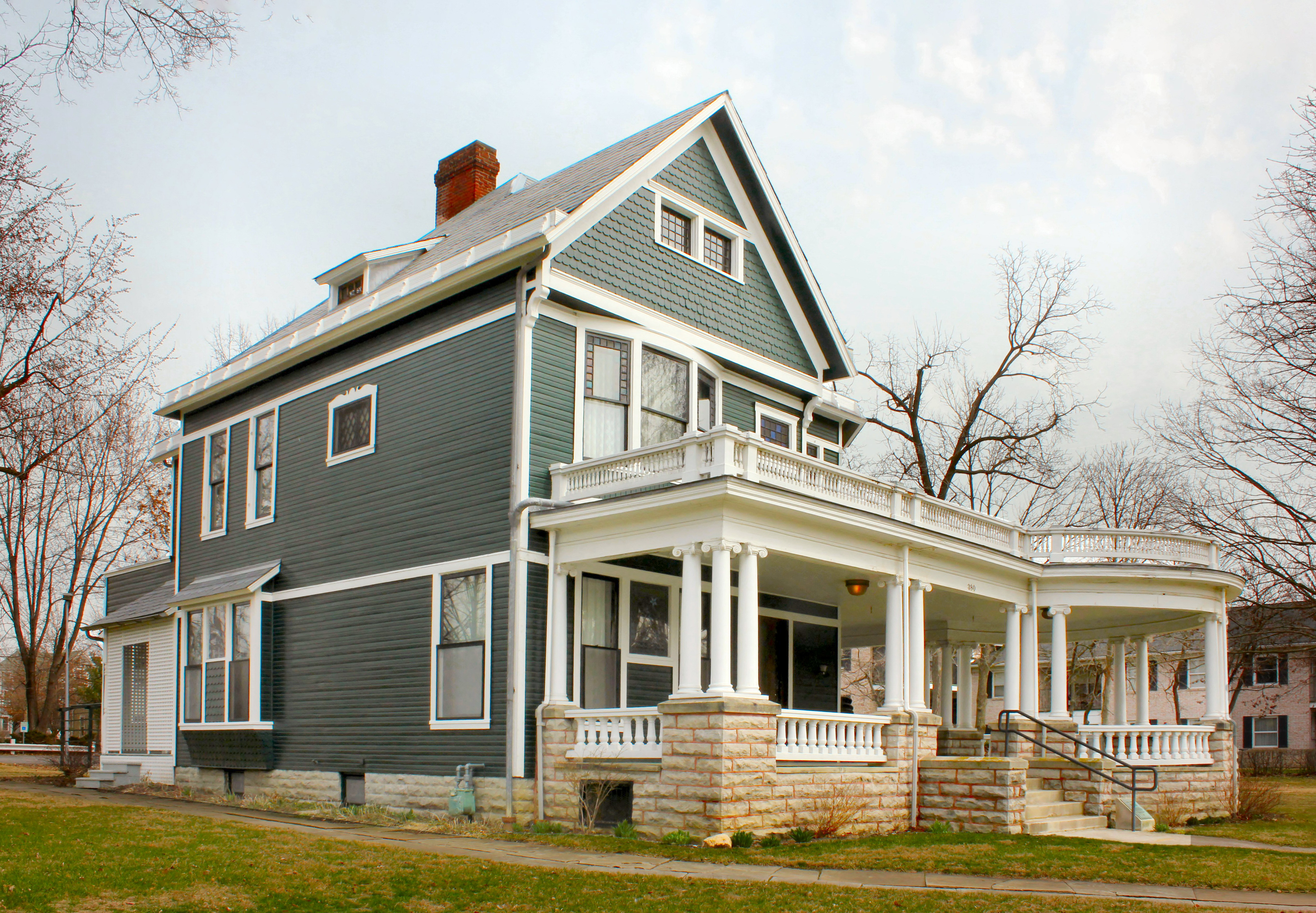 The home of former President Warren G. Harding in Marion, OH, in 2011